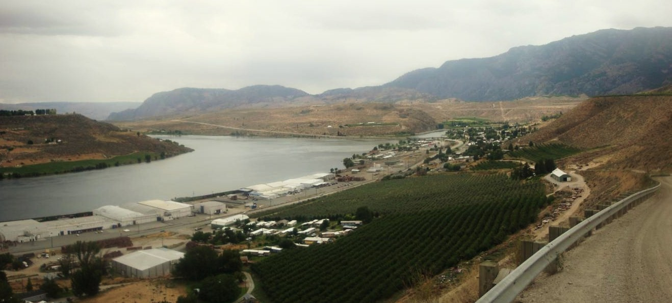 Pateros, Washington and Lake Pateros (Columbia River). The mouth of the Methow River is visible in the middle right on the image.